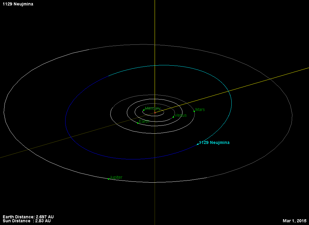 1129 Neujmina orbit and his position on 01 Mar 2015 (NASA Orbit Viewer applet)